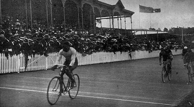 Major Taylor wins the Walne Stakes at Adelaide Oval.